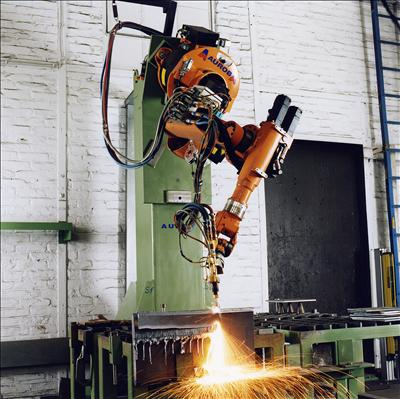 KUKA Robot is cutting Bridge Building Parts at company Krupp in Germany. Factory Automation with industrial robots for metall cutting.